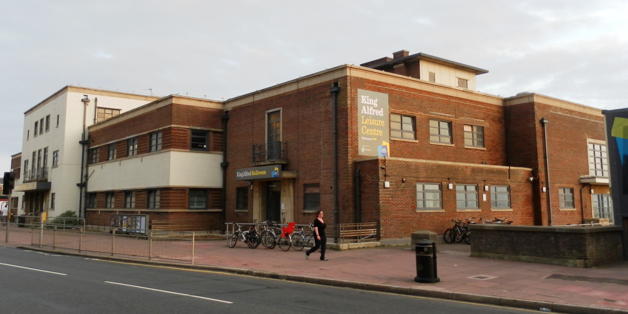 King Alfred Leisure Centre, Kingsway, Hove, City of Brighton and Hove, England. Built in two stages: 1937 and 1980-82.